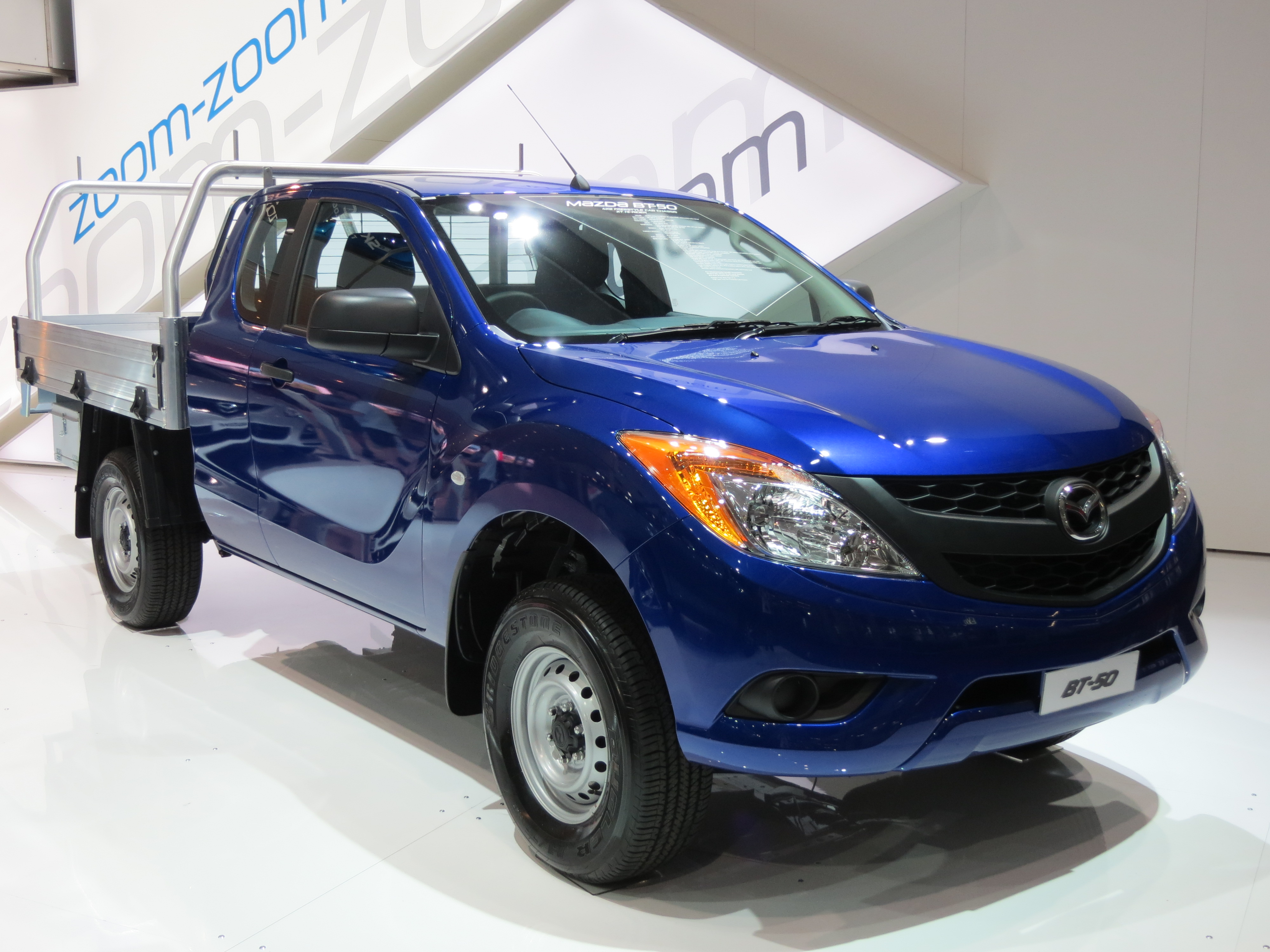 2012 Mazda BT-50 (B32P) XT Hi-Rider 4x2 Freestyle cab chassis. Photographed at the 2012 Australian International Motor Show, Sydney, New South Wales, Australia.